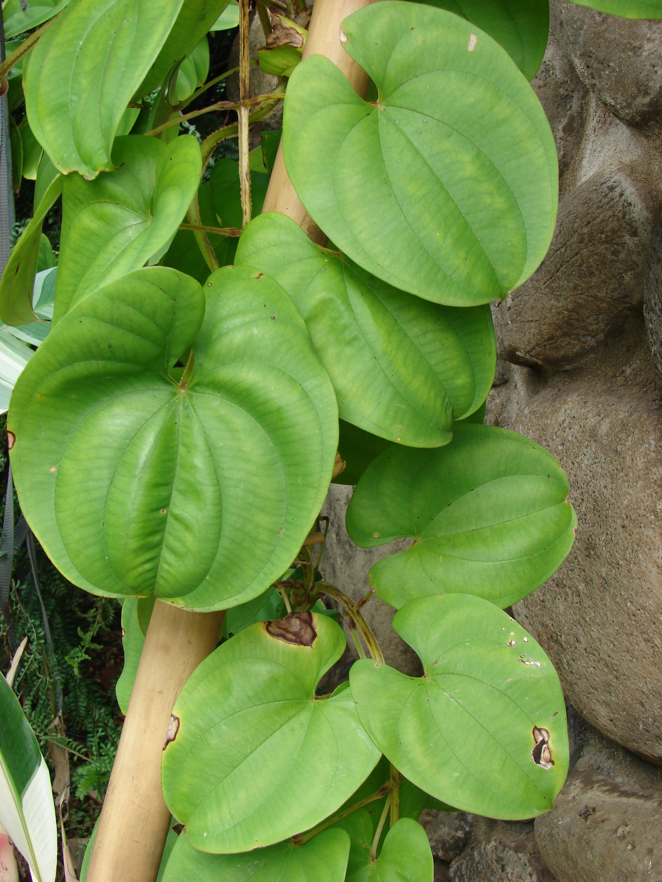 Dioscorea alata (leaves). Location: Maui, Maui Nui Botanical Garden